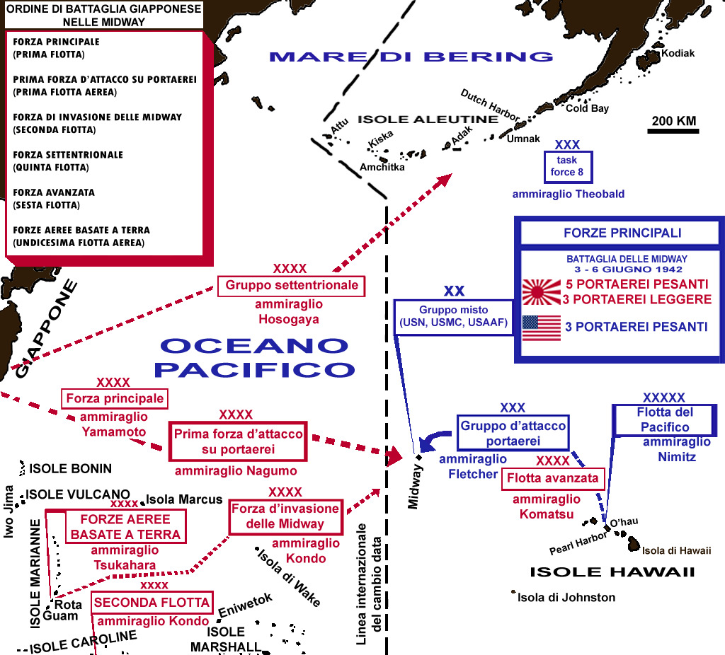 Map of the battle of Midway, with caption translated in Italian